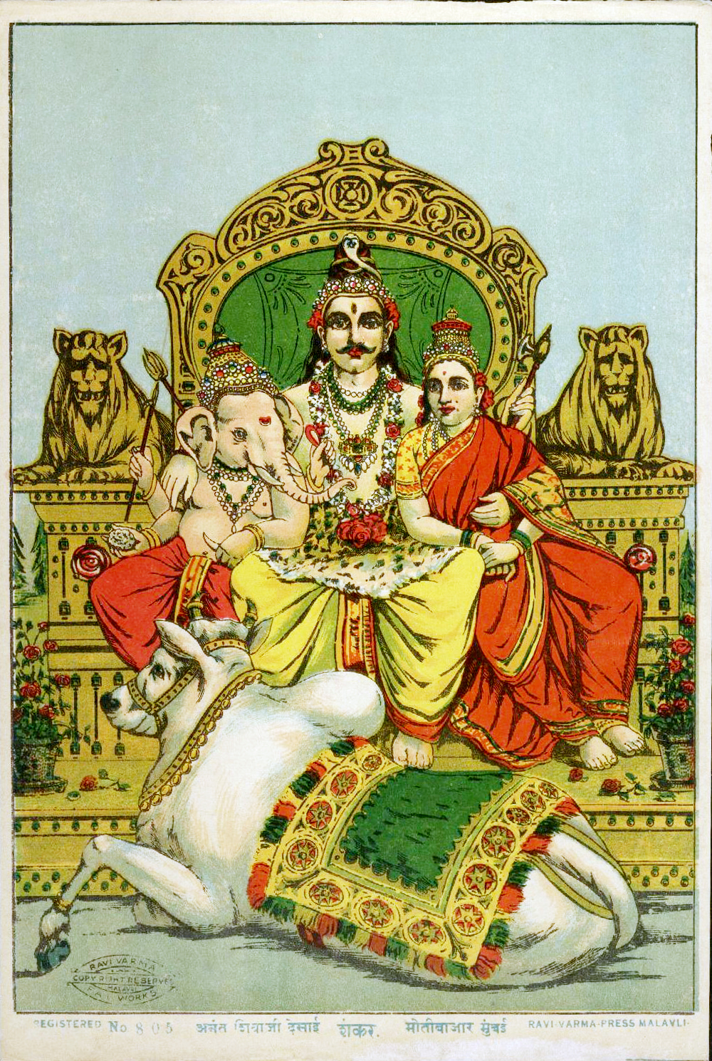 Siva Parvati, may be by Raja Ravi Varma.